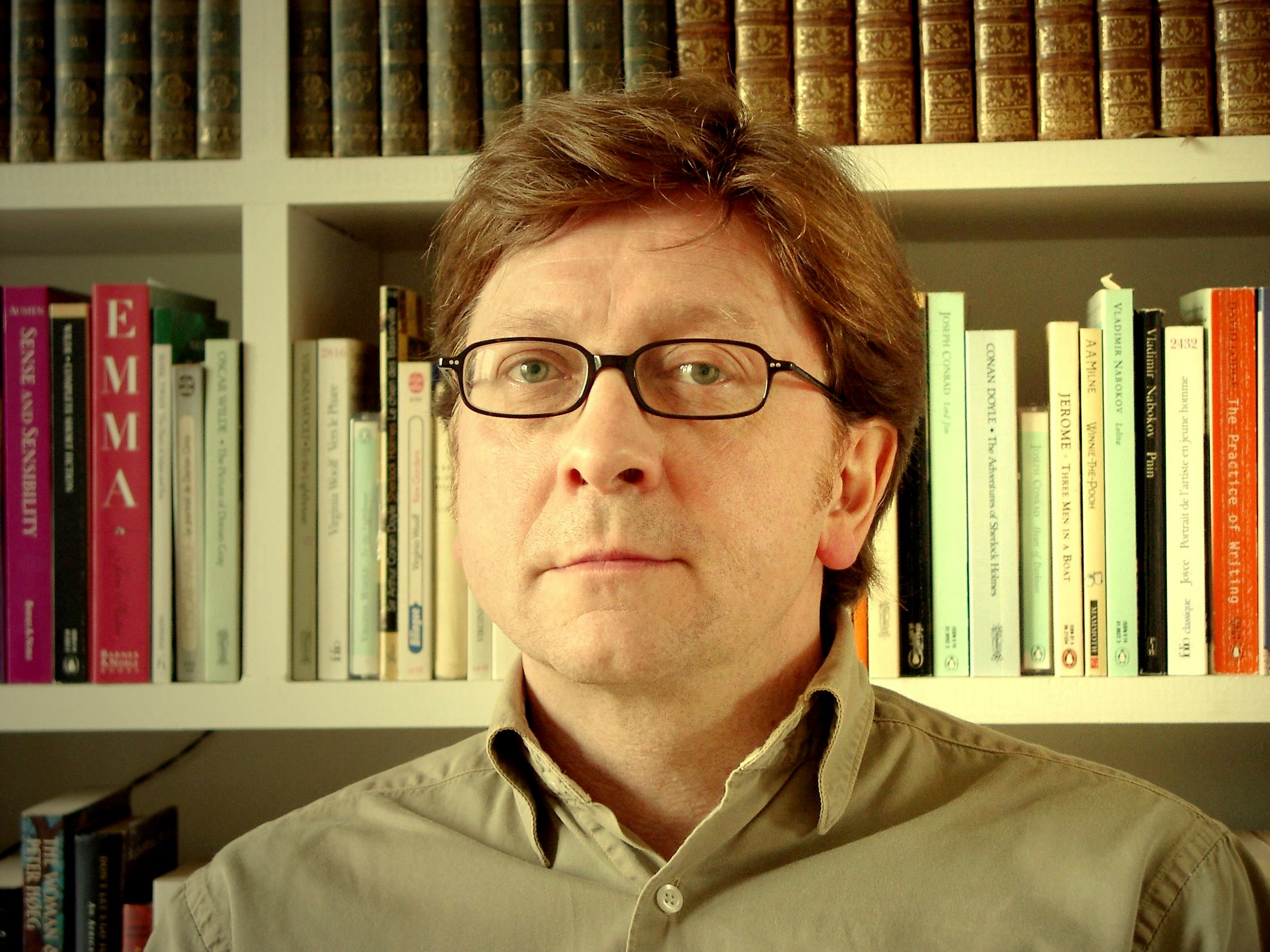 Stoczkowski's photo